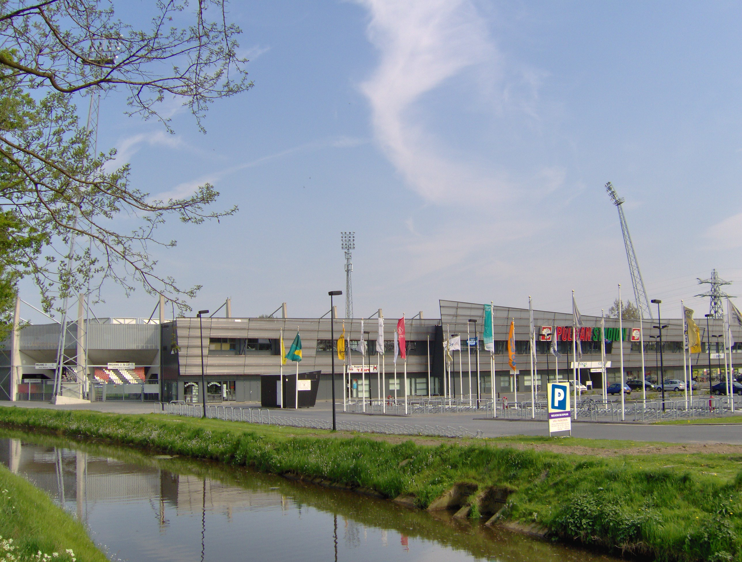 The Polman Stadion, the official stadium of soccer club Heracles Almelo from Almelo